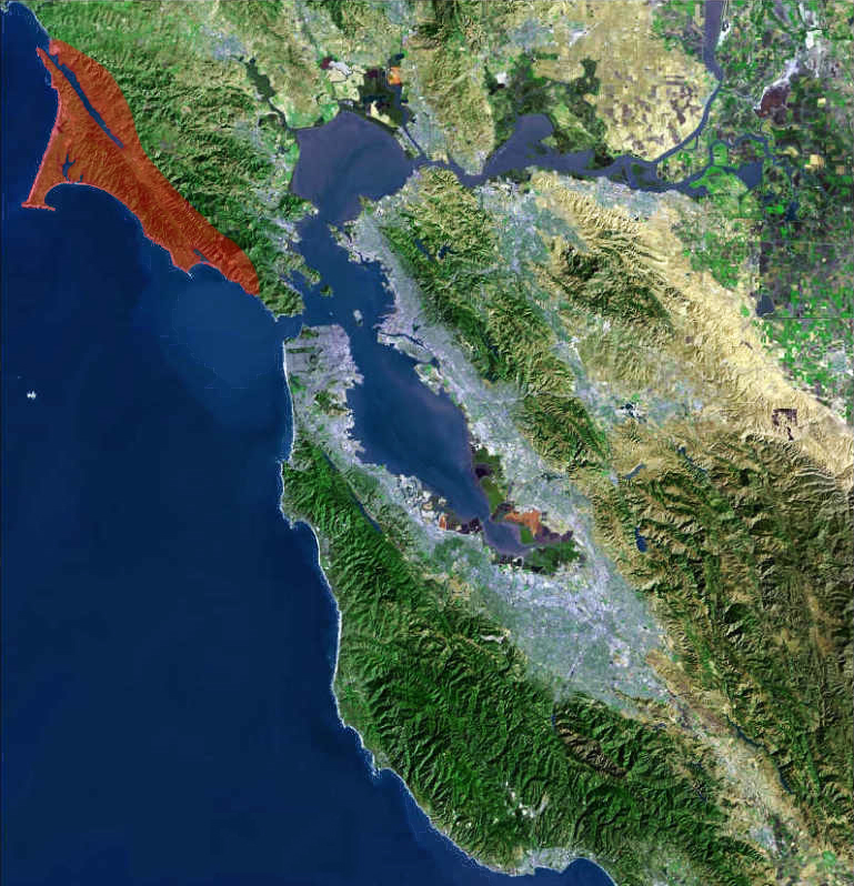 West Marin highlighted in the San Francisco Bay Area on a USGS satellite picture.